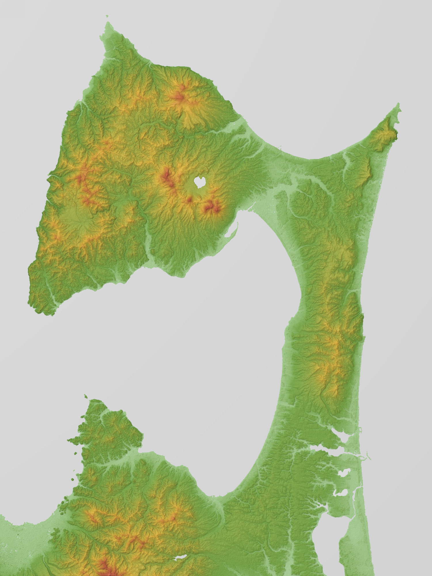 Shimokita Peninsula in Aomori Prefecture, Honshu, Japan.